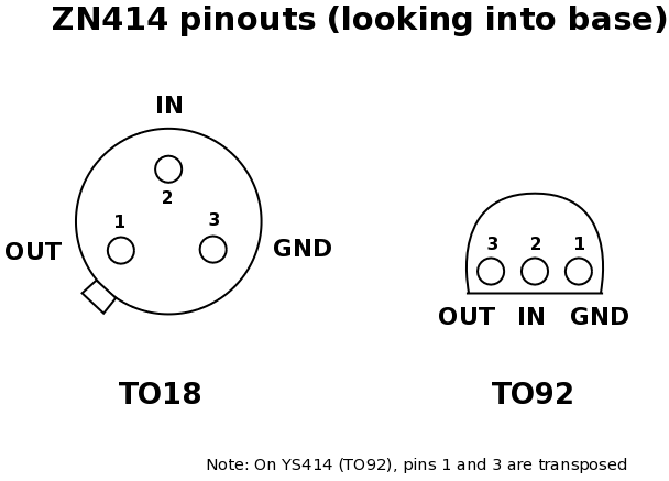 ZN414 (AM detector IC) pinout diagrams for the TO-18 and TO-92 variants